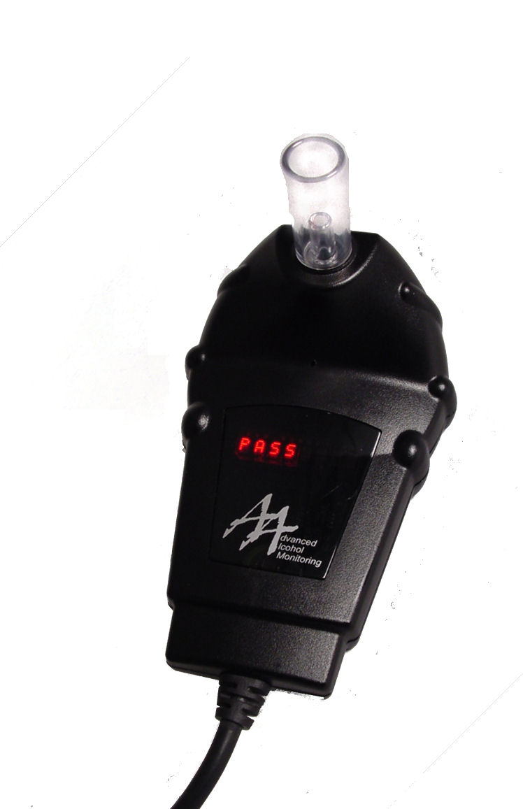 AMS2000 Ignition Interlock Device manufactured by Guardian Interlock Systems